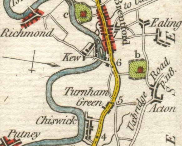 Detail from a 1785 map from Daniel Paterson's British Itinerary showing the route from London to Oxford: area of Kew, Brentford and Turnham Green.